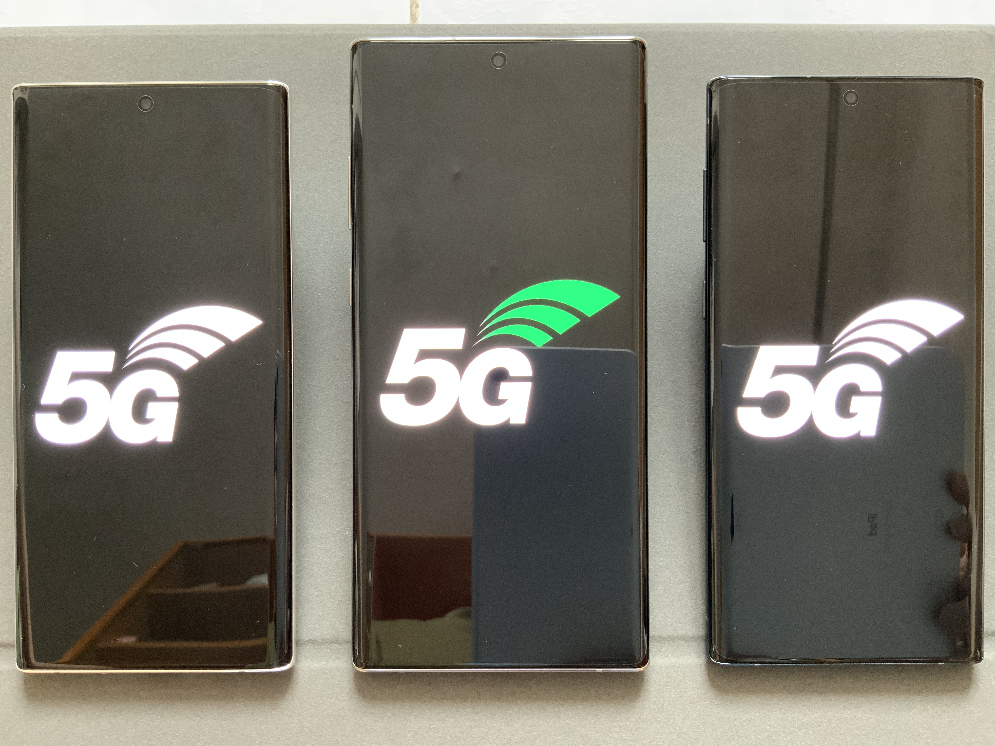 SAMSUNG Galaxy Note10 SAMSUNG Galaxy Note10 5G SAMSUNG Galaxy Note10+ SAMSUNG Galaxy Note10+ 5G